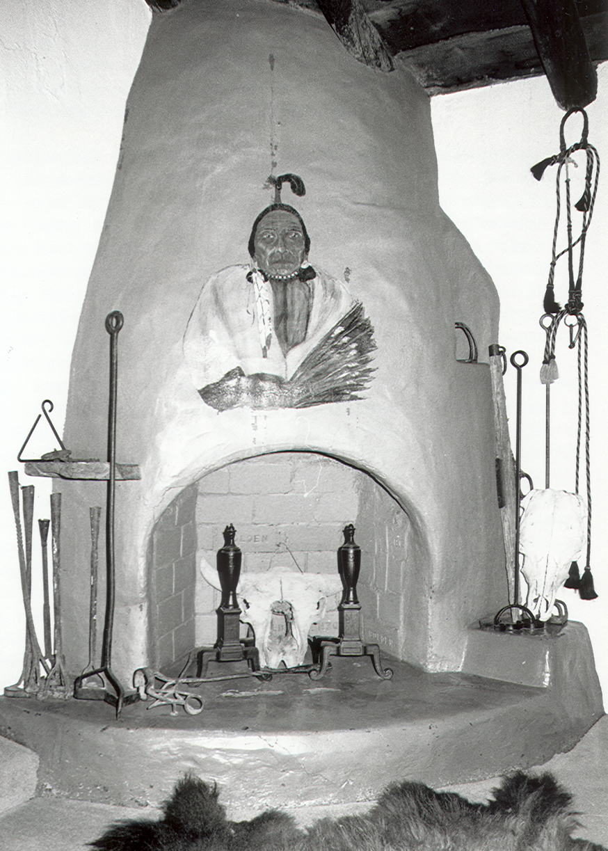 The room at the Remount Ranch in Wyoming where author Mary O'Hara wrote "My Friend Flicka" features this adobe-styled fireplace. A hand-painted image of Chief Goodshield is depicted on the fireplace. This room was made into a "bar room" around 1946, according to a 1992 brochure used to market the ranch for sale by then owners John & Mary Ostlund. The sale included the 6,000 sq ft stone main house and 1,766 acres. The ranch is located in the foothills on the east slope of the Laramie Mountains.